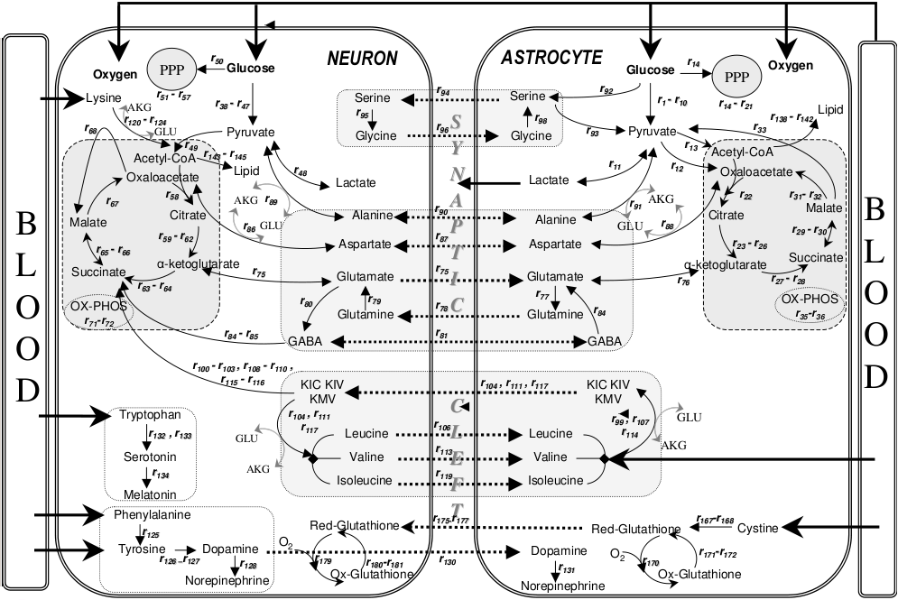 Diagram appeared in an article in a CC-by licensed journal. The figure description provided by the article: "Thick arrows show uptake and release reactions. Dashed arrows indicate shuttle of metabolites between two cell types. Glutamate and α-ketoglutarate in transamination reactions are abbreviated as GLU and AKG, respectively. All reactions considered in the modeling are given in additional file 1 [see Reaction set below]. The reaction numbers in the figure refer to the numbering in the reaction list of additional file 1. Here we only depict major reactions for simplicity."